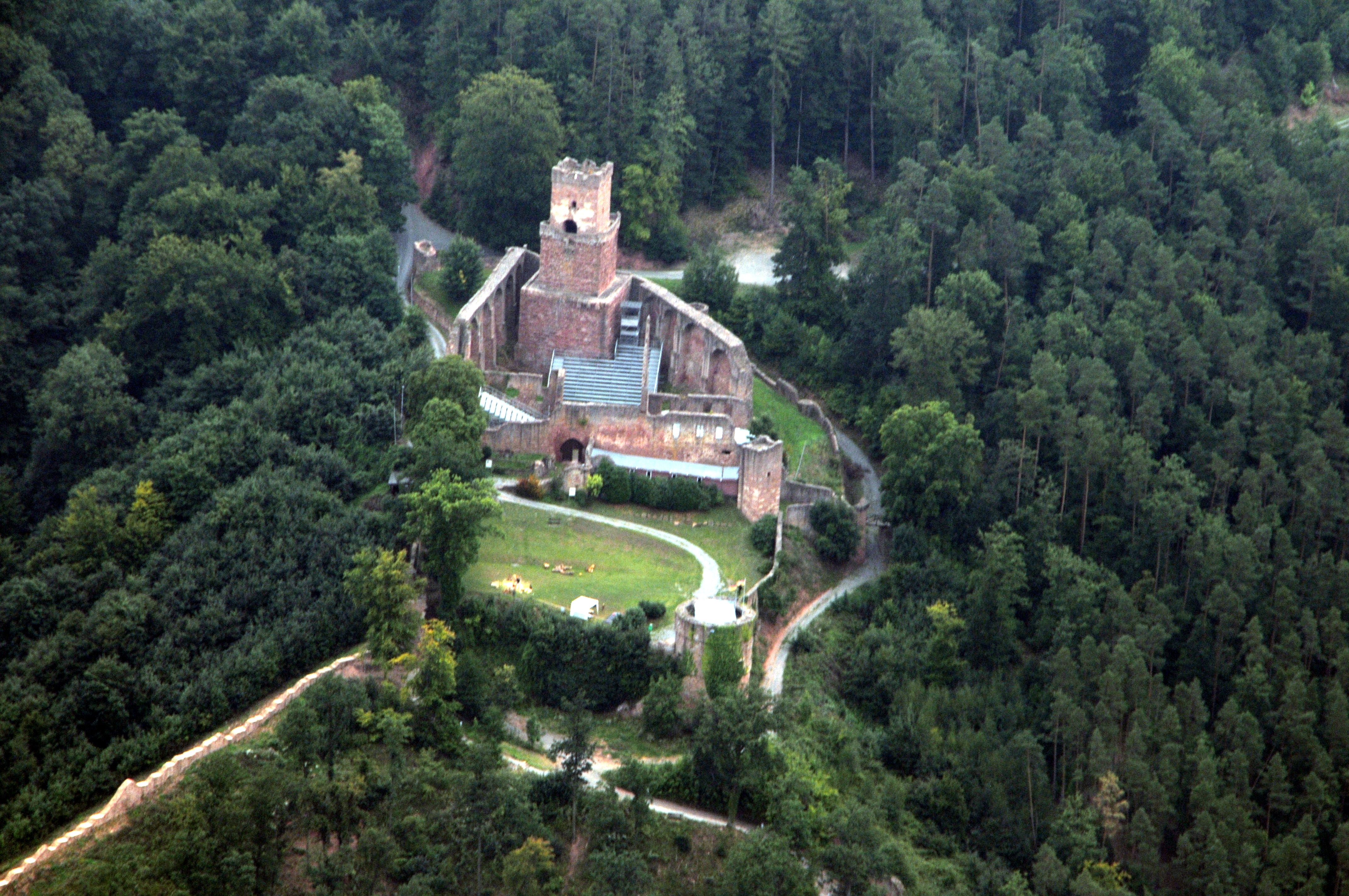 Freudenberg (Baden), Baden-Württemberg, Germany, aerial photograph